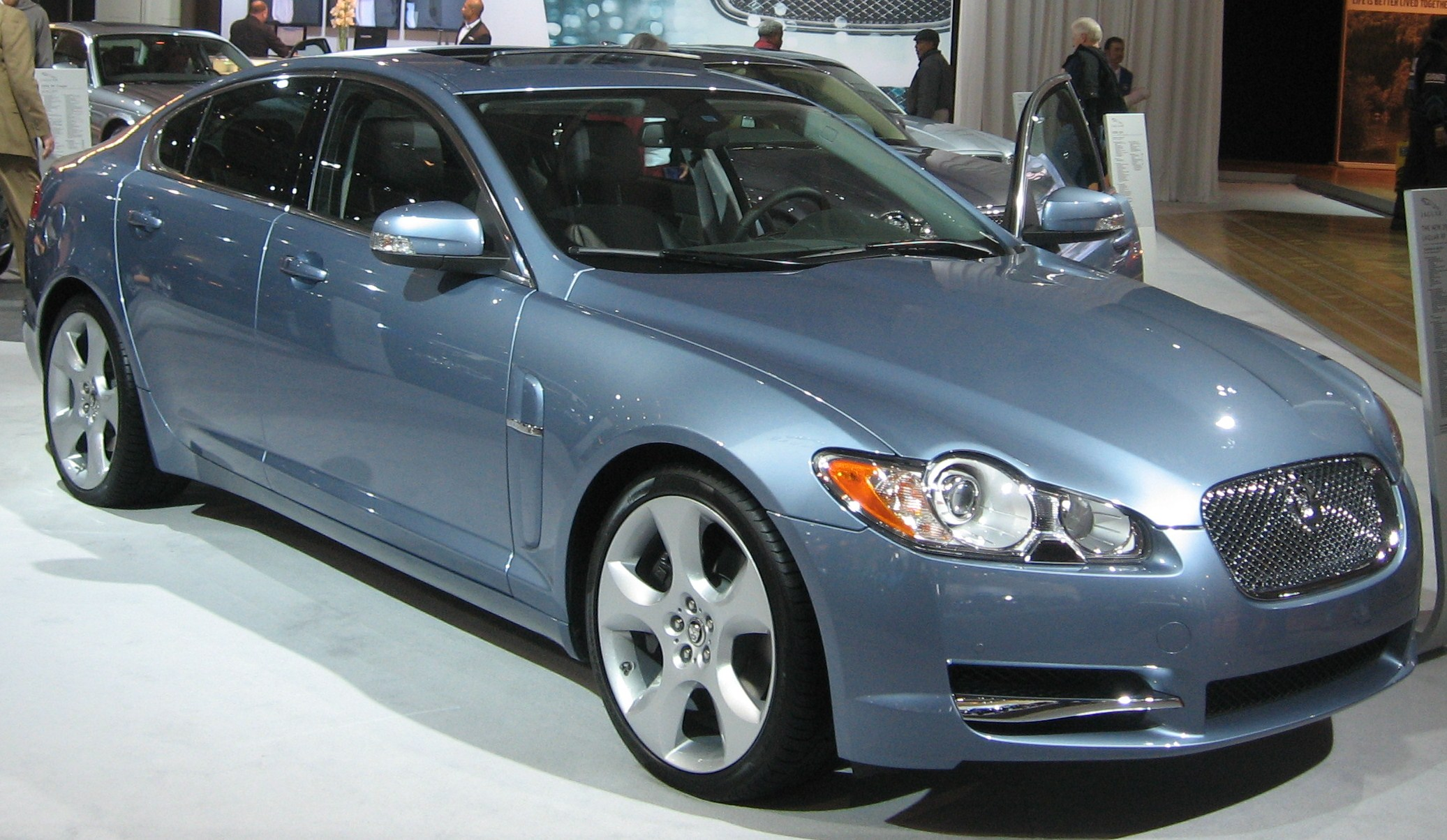 2009 Jaguar XF photographed at the 2008 Washington DC Auto Show.